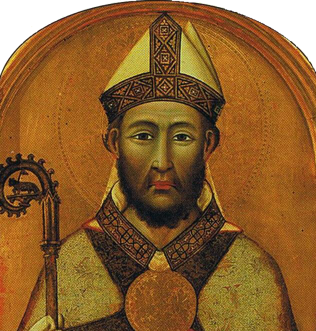 Portrait of Saint Emilianus of Trevi